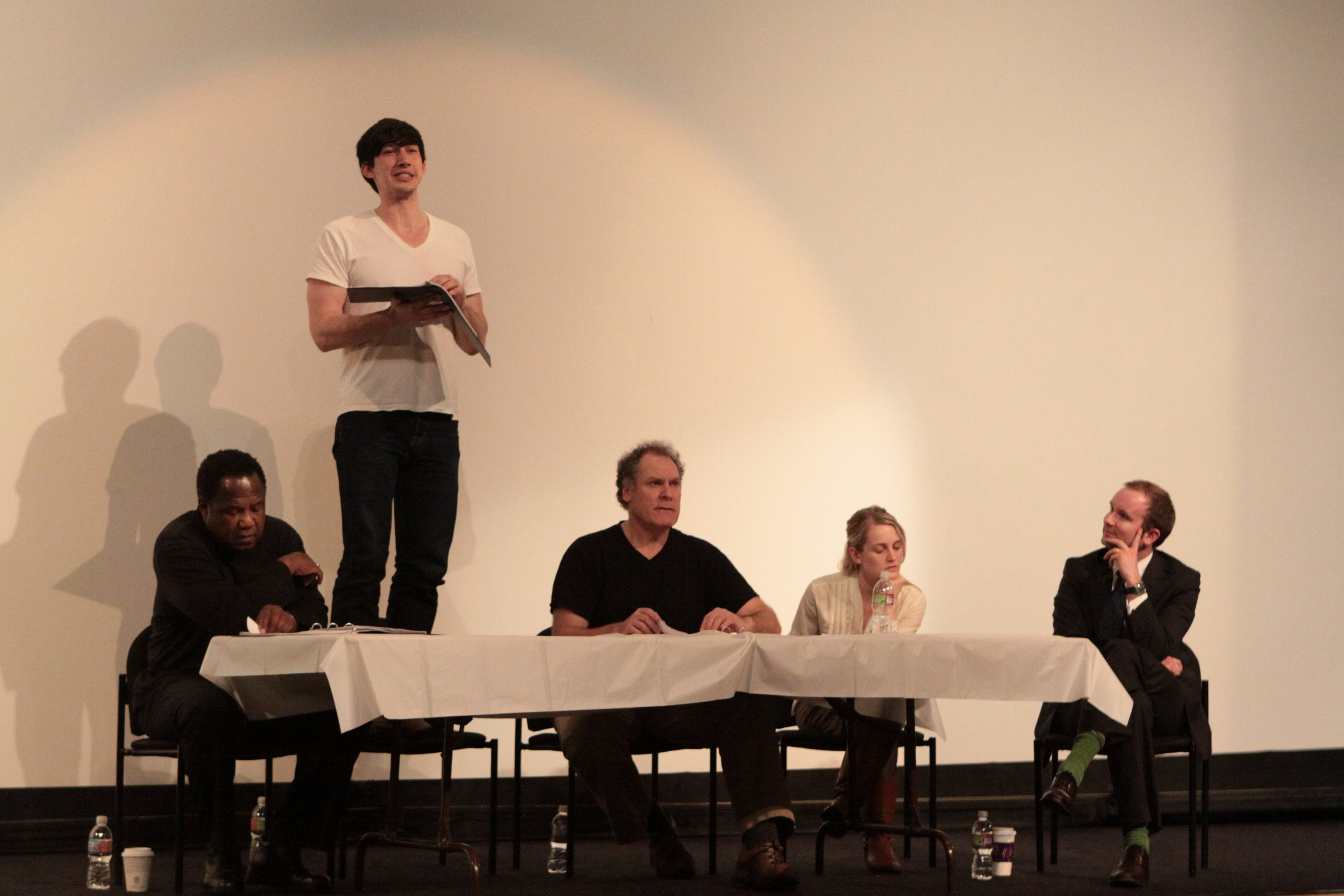 Adam Driver, actor, amongst co-stars Isiah Whitlock Jr., Jay O. Sanders and Joanne Tucker during the performance of "Theater of War" at the Camp Pendleton base theater, Feb. 6. The goal of the play is to create awareness of combat related injuries and for service members to understand it is better to seek help than ignore the symptoms.